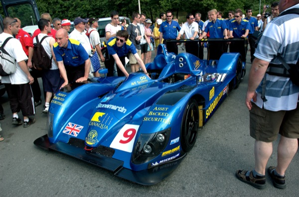 A photograph of a Creatoin CA06/H at the 2006 24 Hours of Le Mans